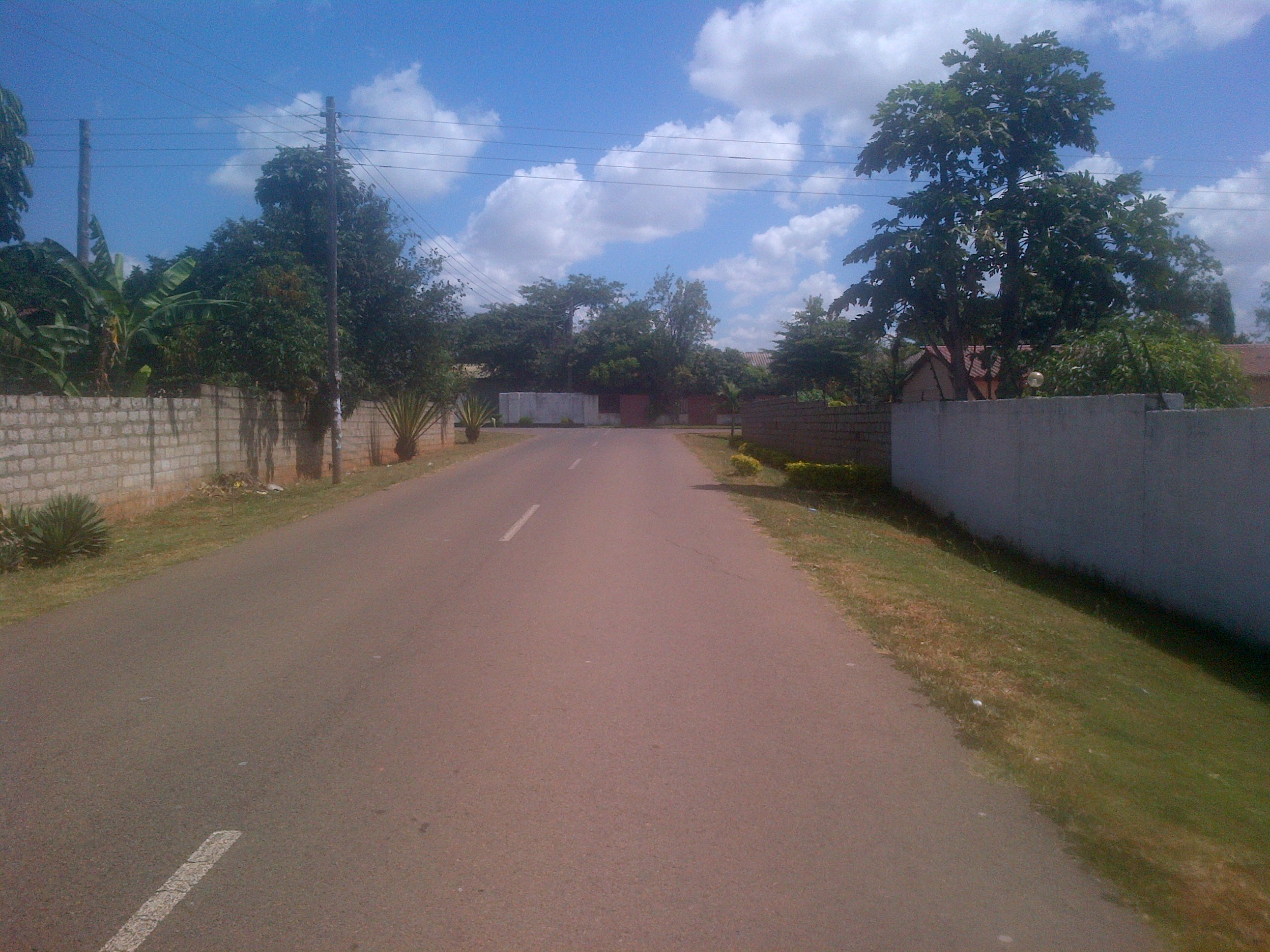 Street in PHI.